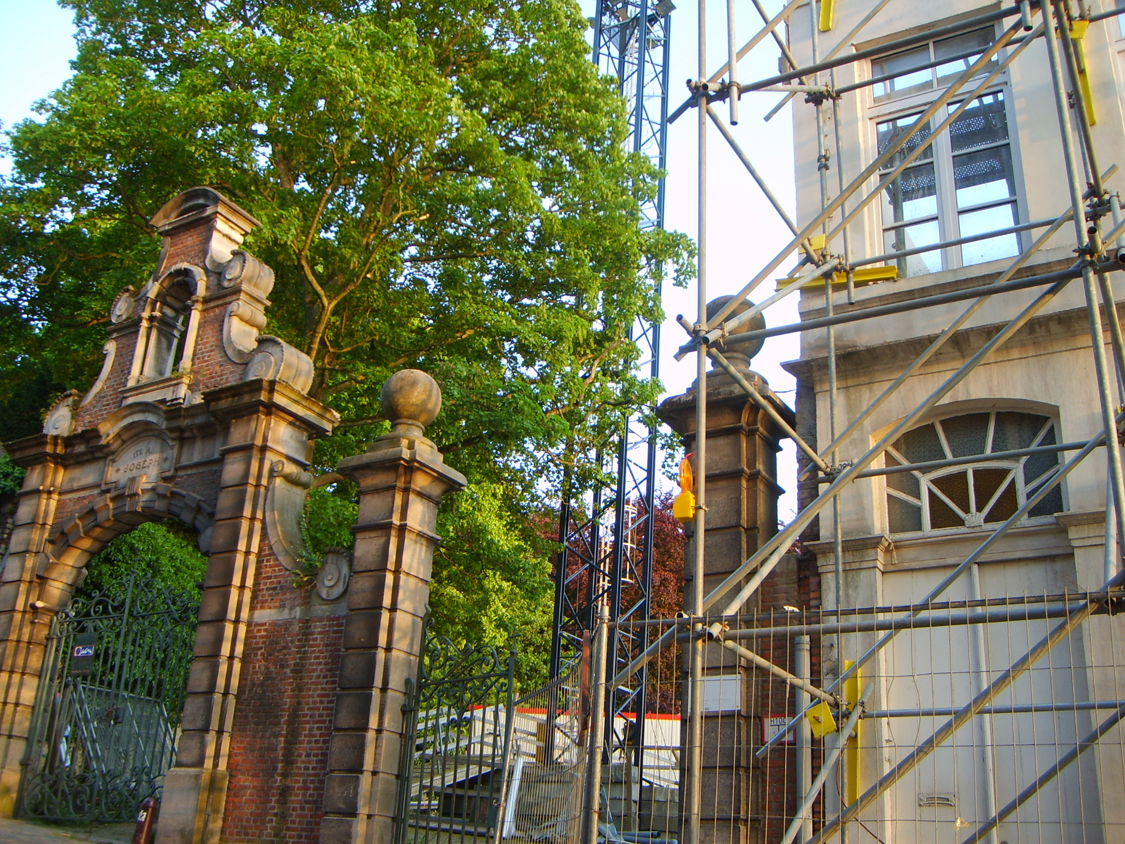 Leuven, De Ramberg, renovation works by Ertzberg in Ramberg.